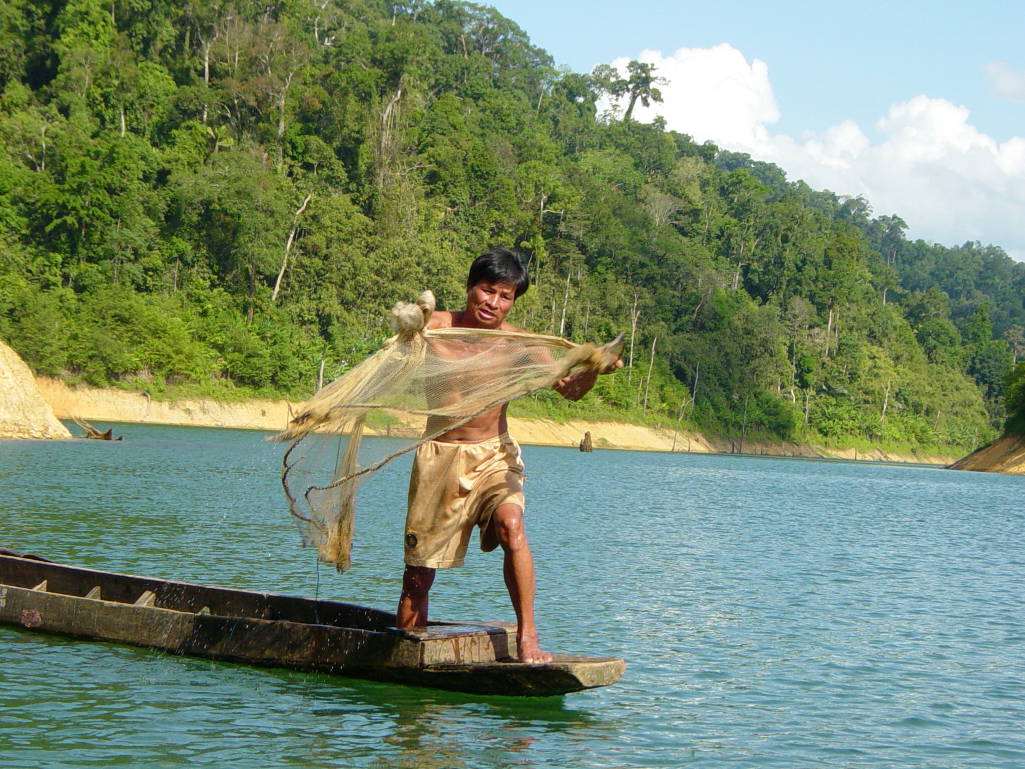 A Thai fisherman casts his net on Khao Sok Lake, in Kao Sok National Park (south-central Thailand, between Surat Thani and Phuket). This sprawling lake was formed by Chiew Laan Dam. The 48-year-old fisherman lives alone on a raft house on the lake. He explained that the National Park officials rarely allowed such homes to be built any longer, but he had been here for 10 years and was grandfathered in.